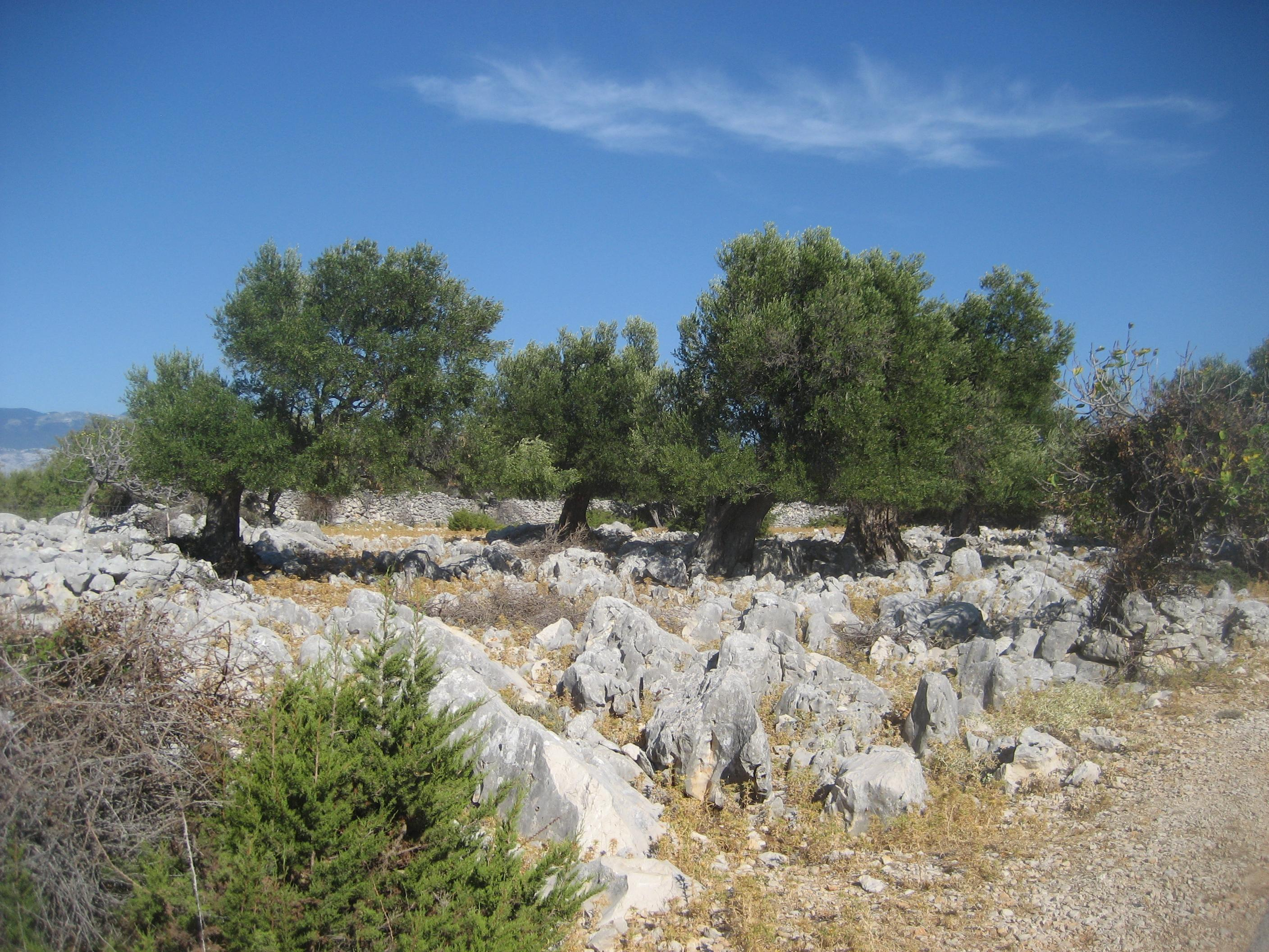 Lun, Island of Pag